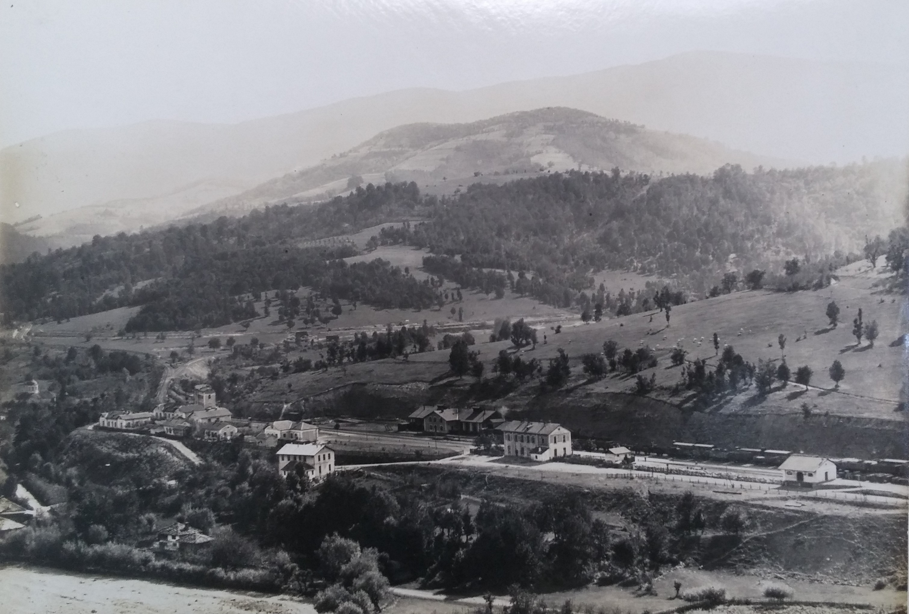 Construction of the railway line Veliko Tarnovo - Tryavna - Borushtitsa. Plachkovtsi station.